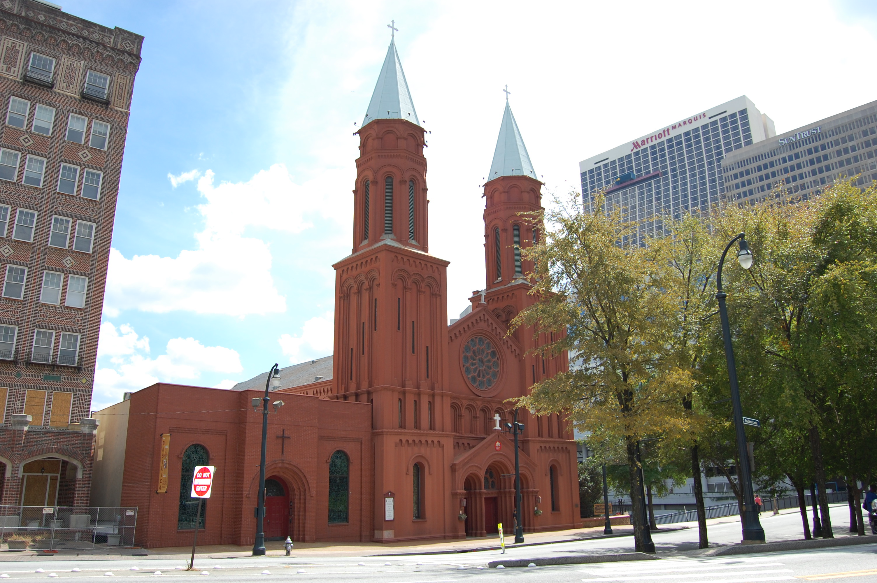 Atlanta Church of the Sacred Heart of Jesus